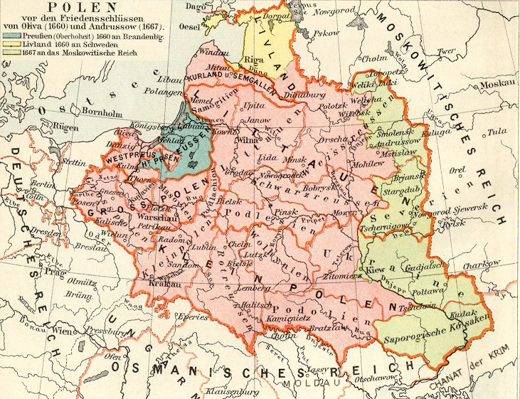 Map of Polish-Lithuanian Commonwealth before 1660.